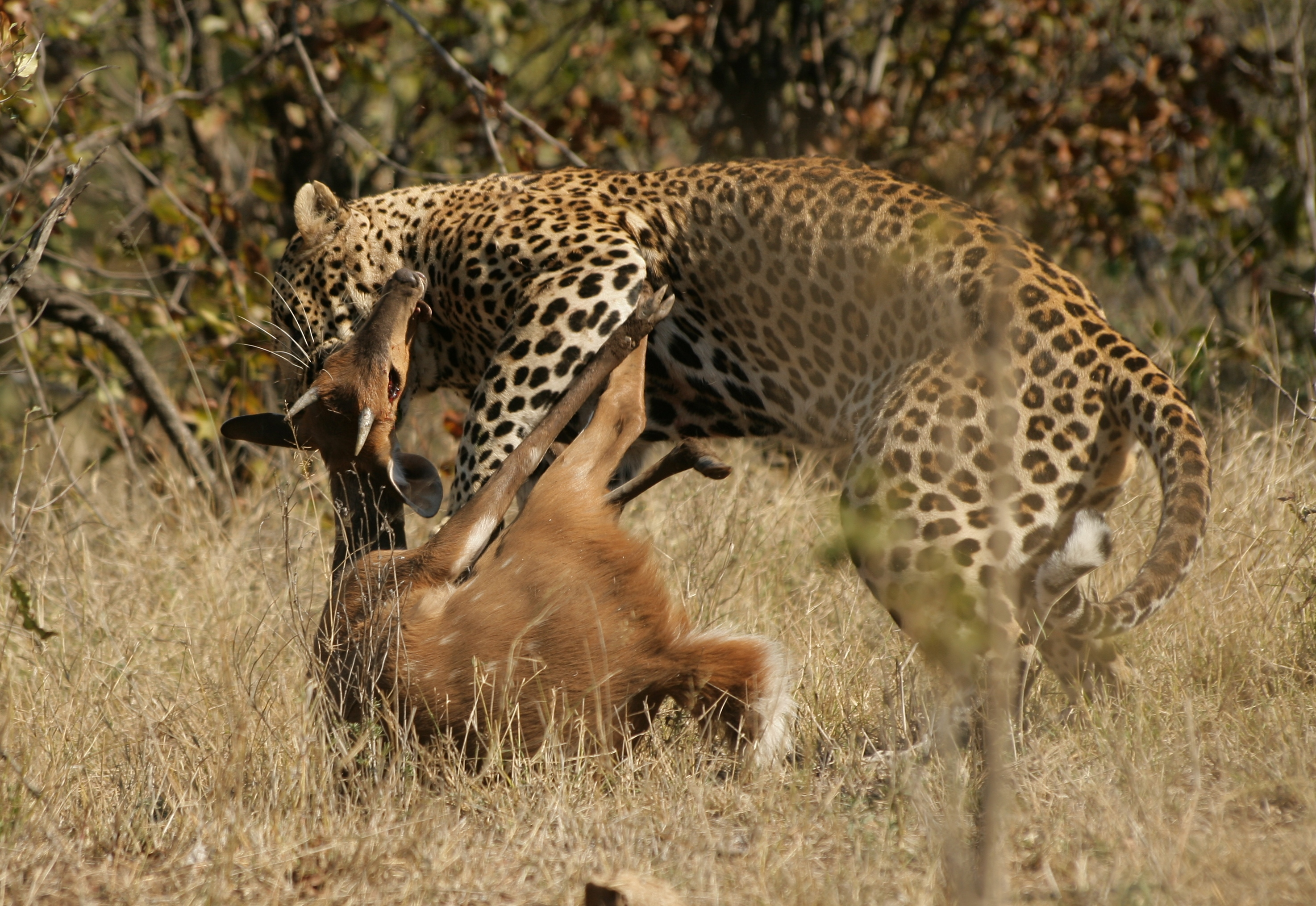 Leopard (Panthera pardus) killing a young Bushbuck (Tragelaphus sylvaticus) in the Kruger National Park